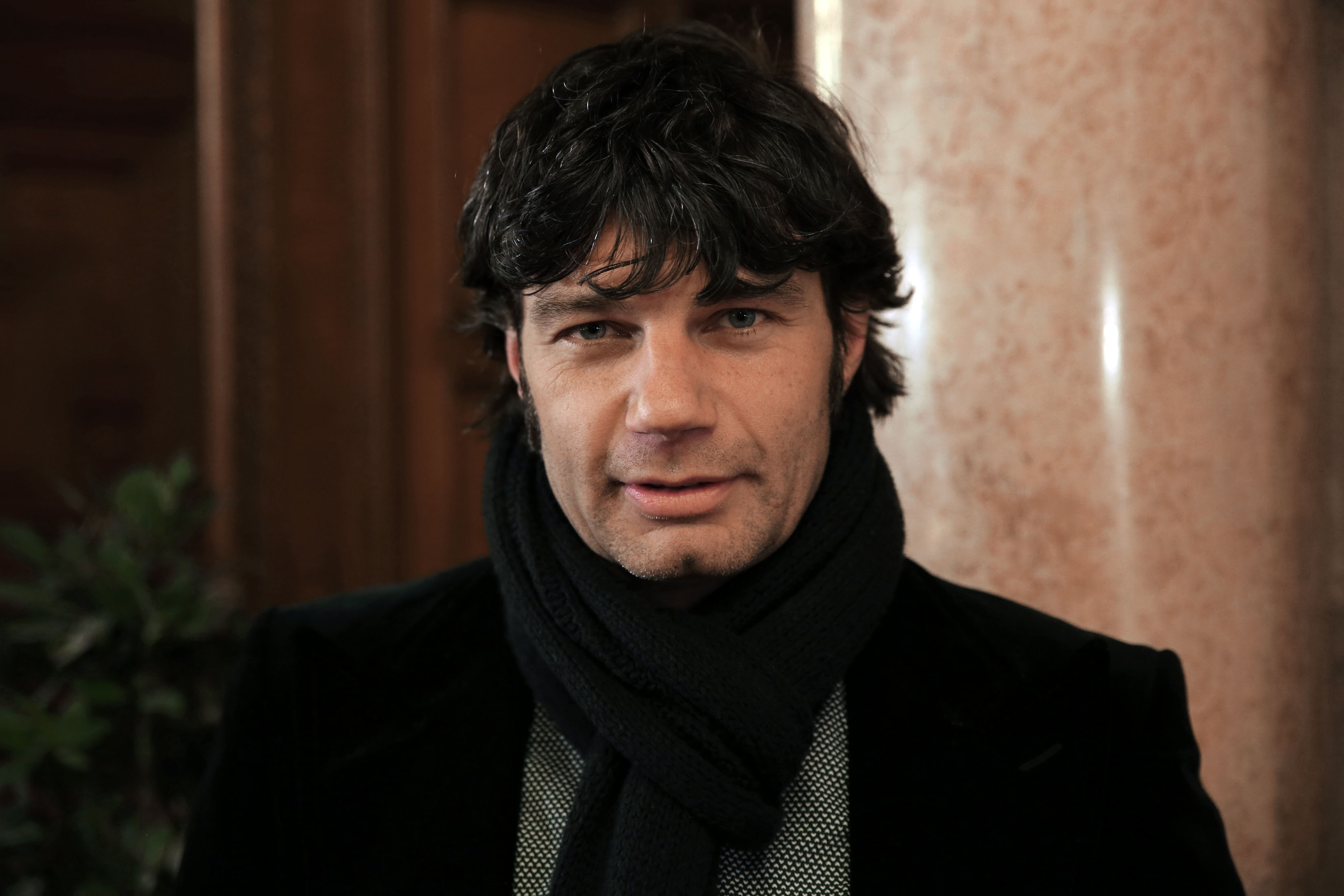 Antonin Svoboda at the Austrian Film Awards 2013 (Vienna).